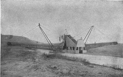 Dredger built for the Lake Copais Company by Hunter & English of Bow, London